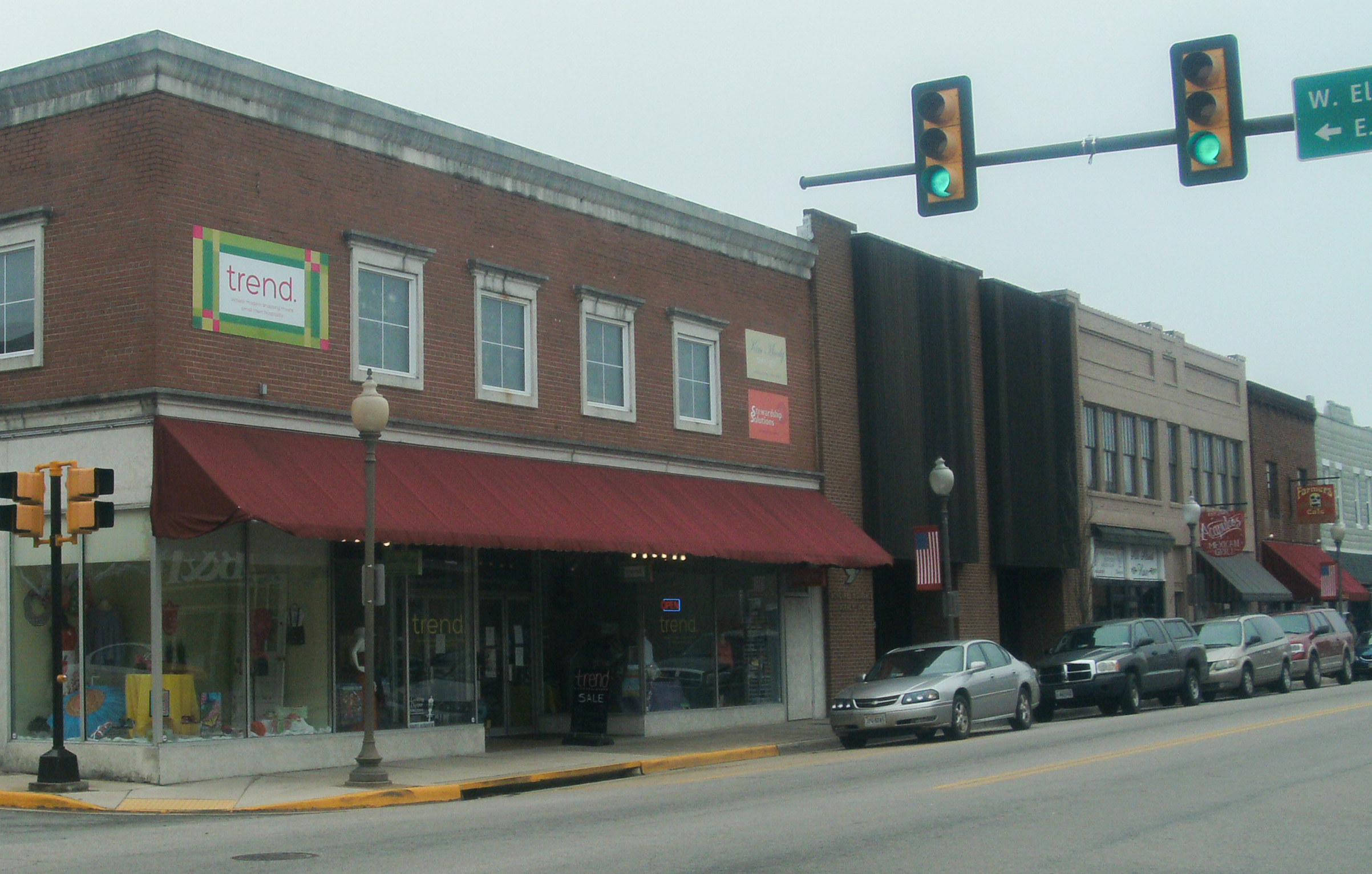 Nottoway County, Virginia, April, 2015 GEDSC DIGITAL CAMERA